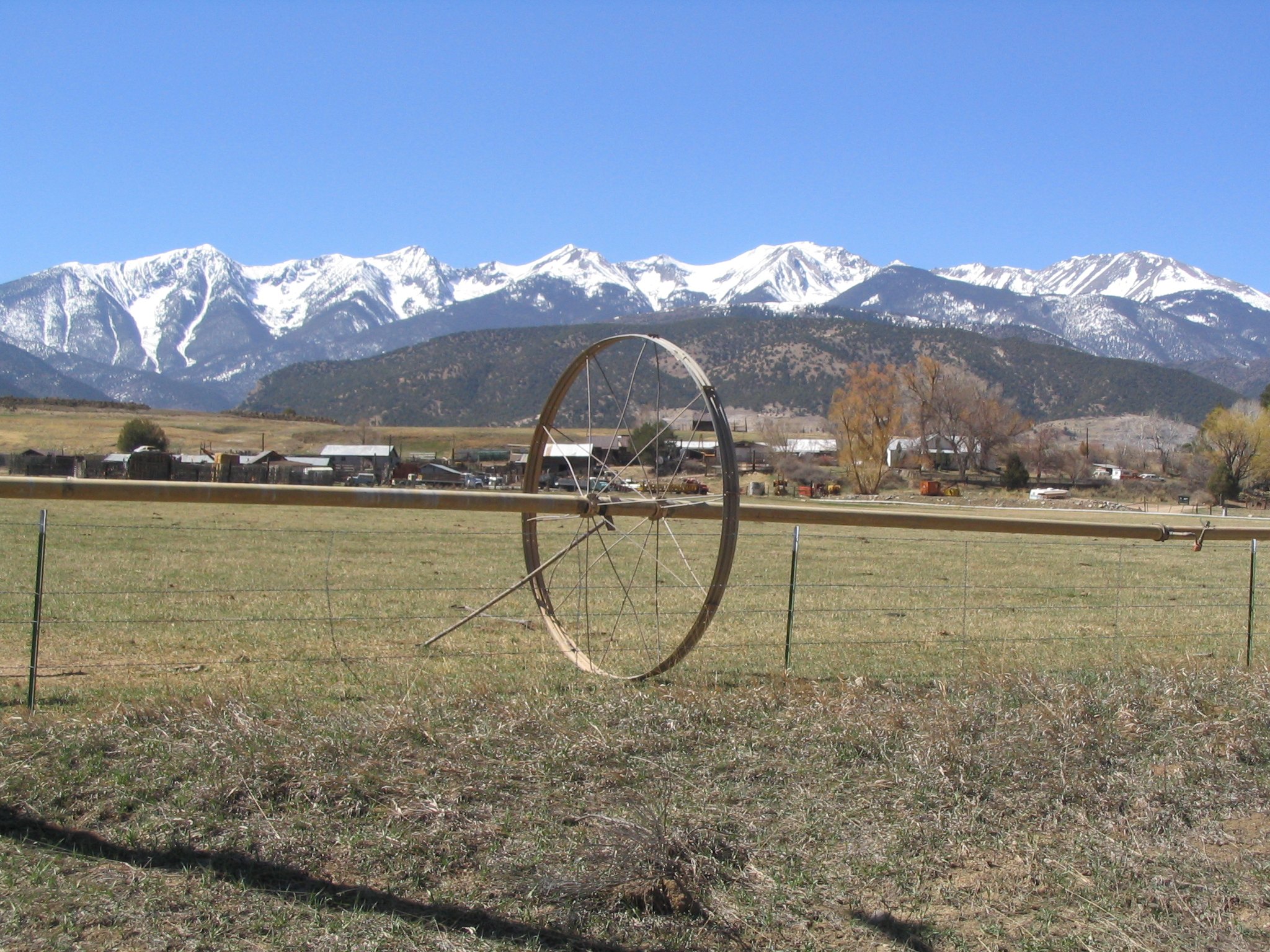 The City of Salida is a Statutory City that is the county seat and most populous city of Chaffee County, Colorado, United States. The population was 5504 at the U.S. Census 2000. Founded in 1880, Salida was originally a railroad town and was a significant link in the Denver and Rio Grande Western Railroad. After World War II the railroad began pulling back its operations in Salida. Many residents in the 1950s, 1960s, and 1970s worked either in local ranching operations or commuted north to Leadville to work at the Climax Molybdenum Company. Today, the most prominent business in Salida is tourism, consisting of skiing at Monarch ski area, whitewater rafting, kayaking and outfitting, particularly on the Arkansas River. Salida is home to the annual FIBArk kayak race, one of the oldest whitewater races in North America.